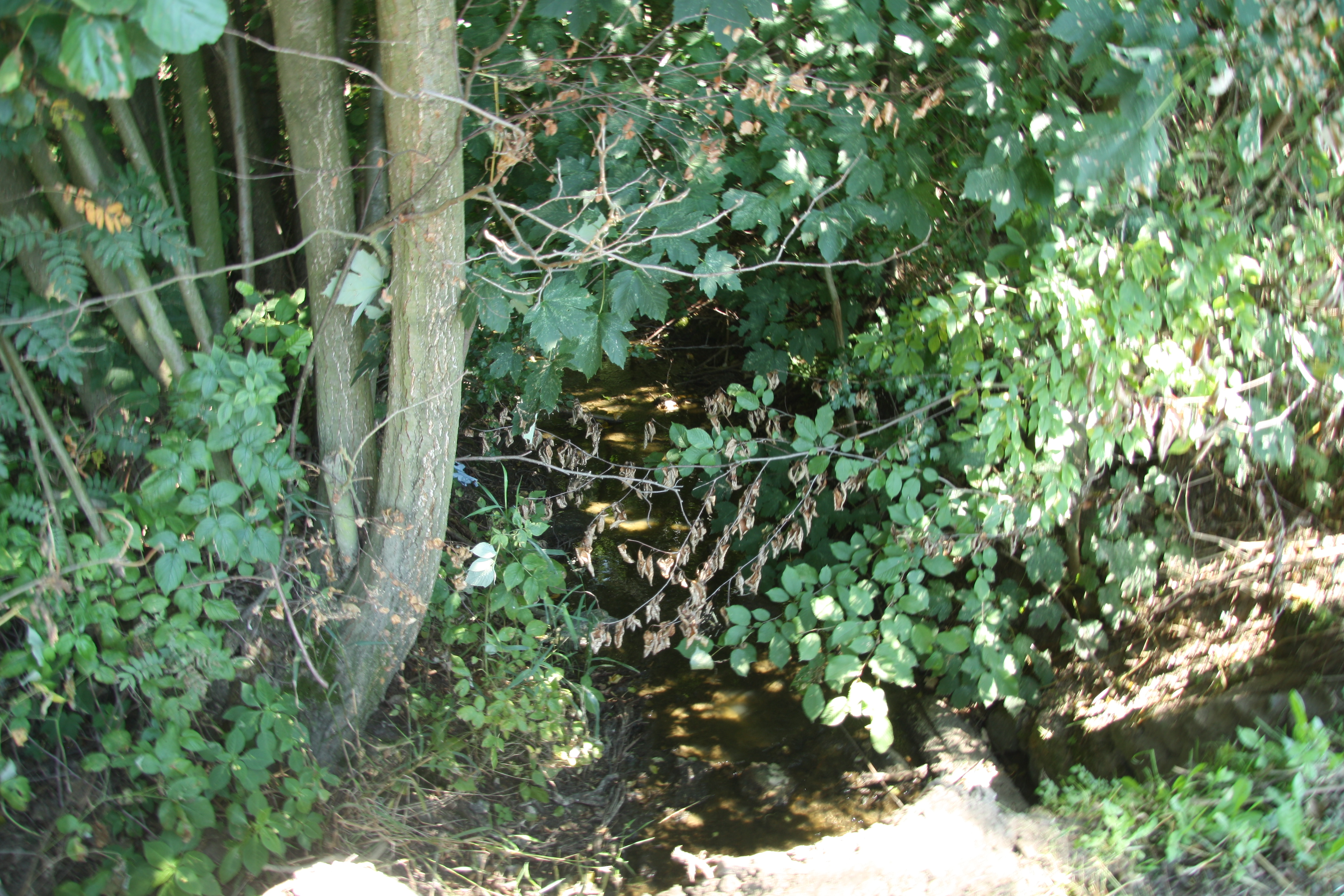 Bohdalovský stream near Bohdalov, Žďár nad Sázavou District.